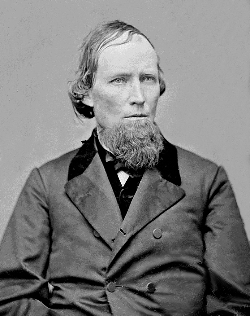 William Johnston was a politician from Ohio during the American Civil War. Here he is cropped from lower right of file:Hon. William Johnson, Ohio - NARA - 527167.jpg.